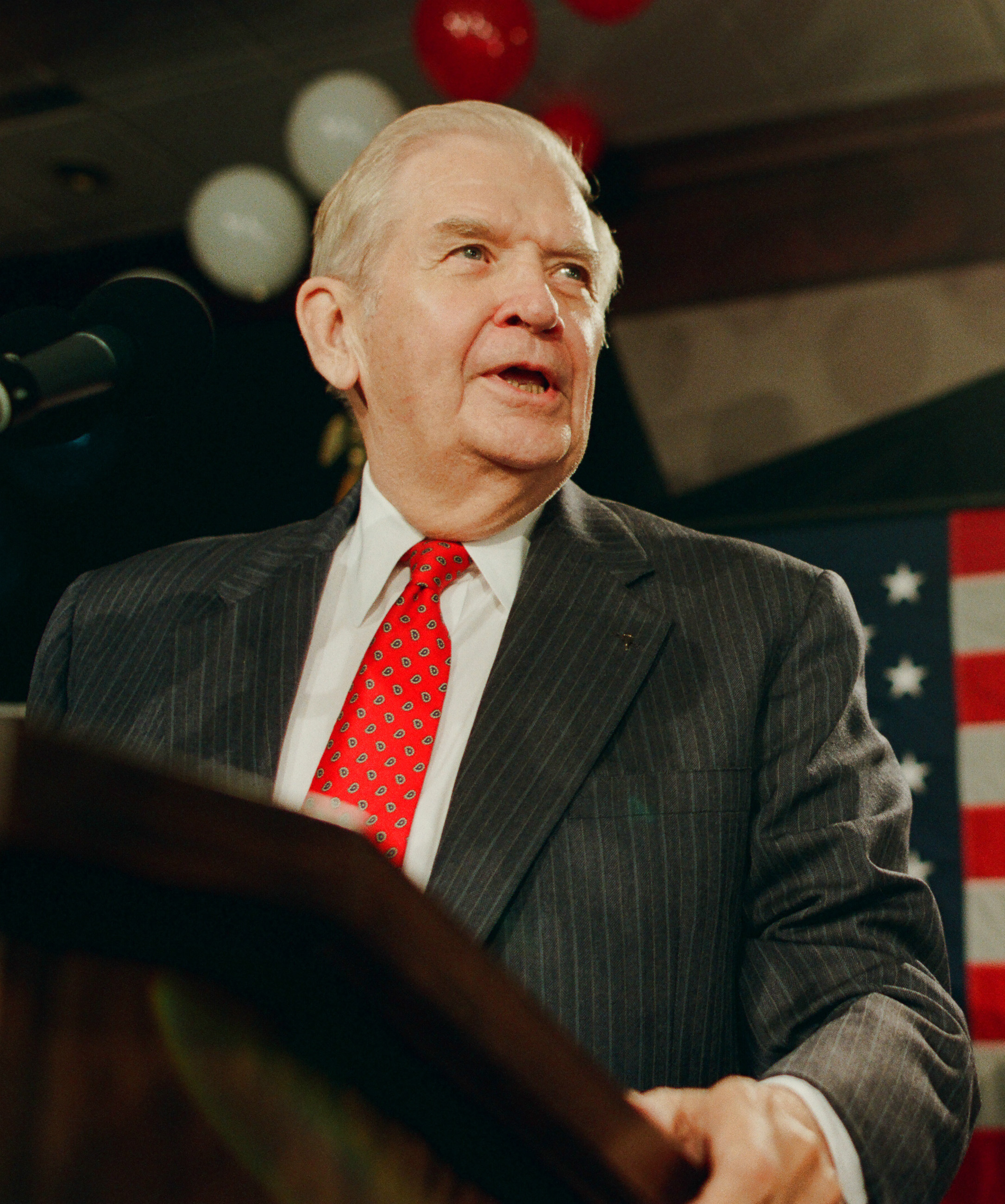 Terry Sanford concedes on election night, November 3, 1992.